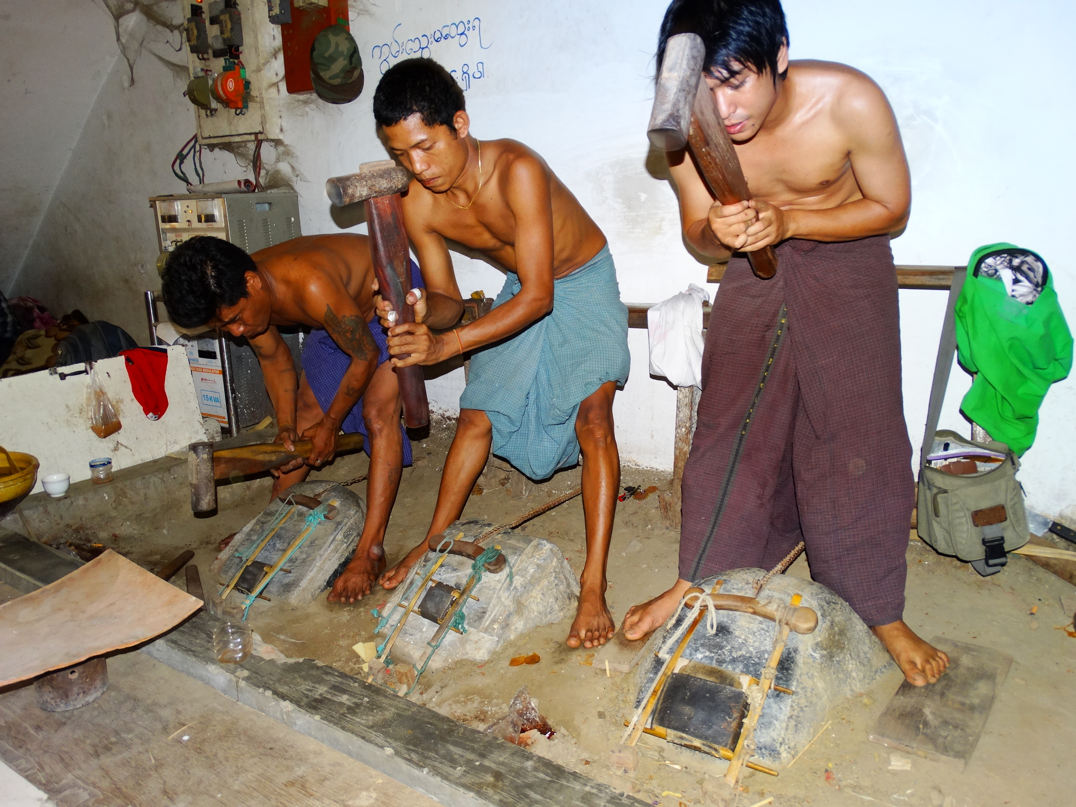 Hammering Gold Leaf - Golden Rose Workshop - Mandalay - Myanmar (Burma).